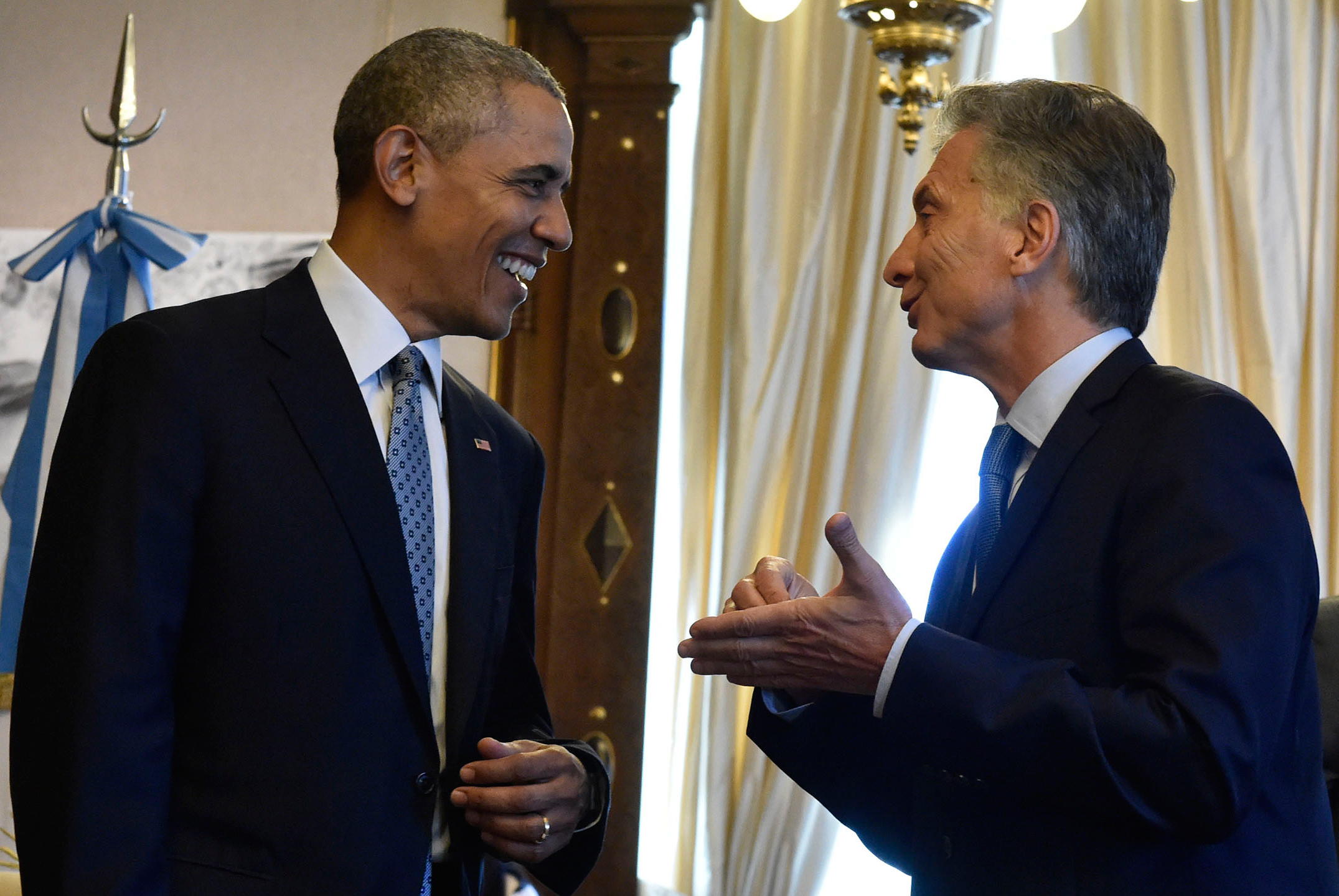 President of Argentina, Mauricio Macri, chatting with the US President Barack Obama.